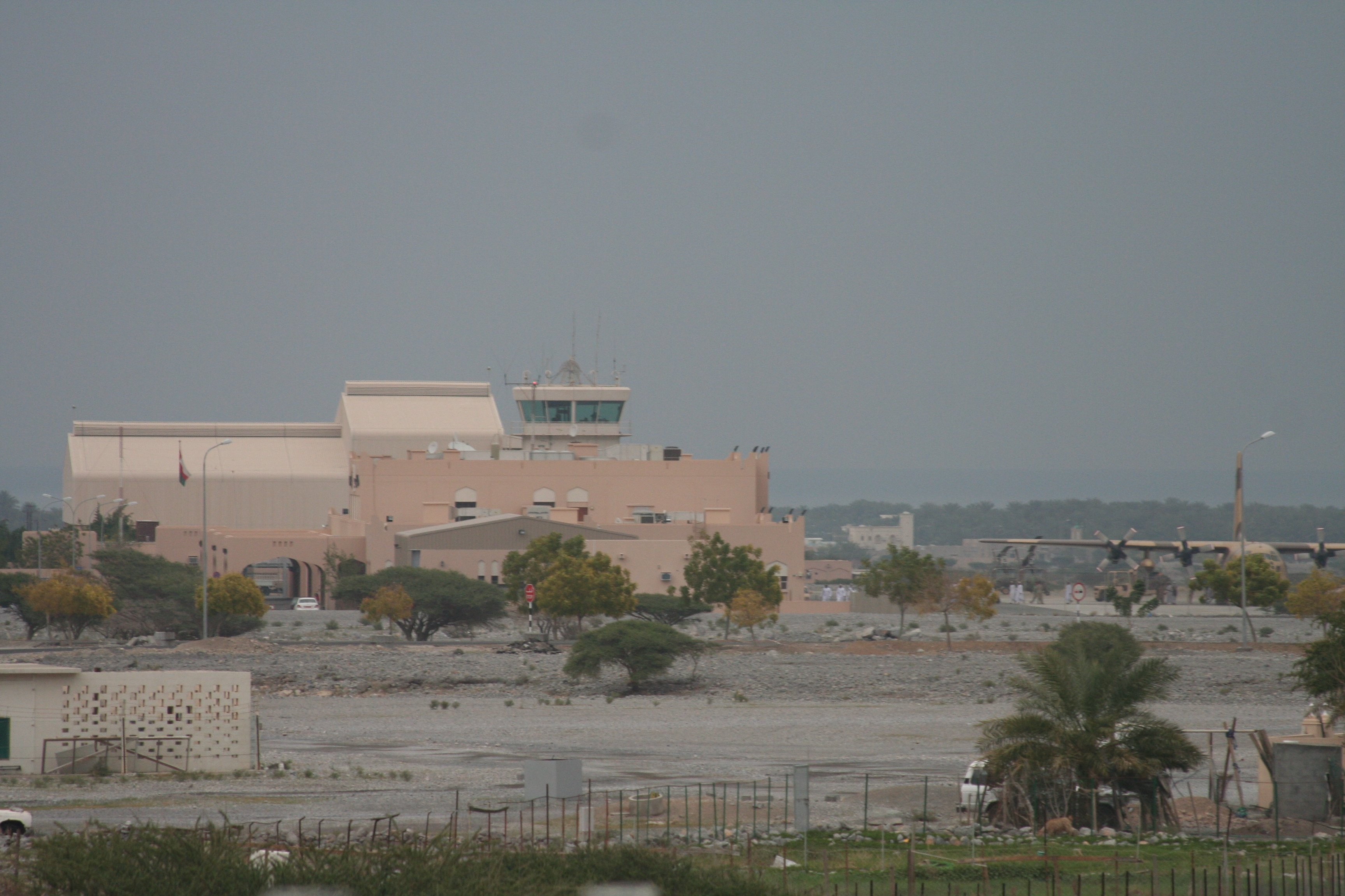 Khasab Airport in Oman. Note the military C-130 in taxi.